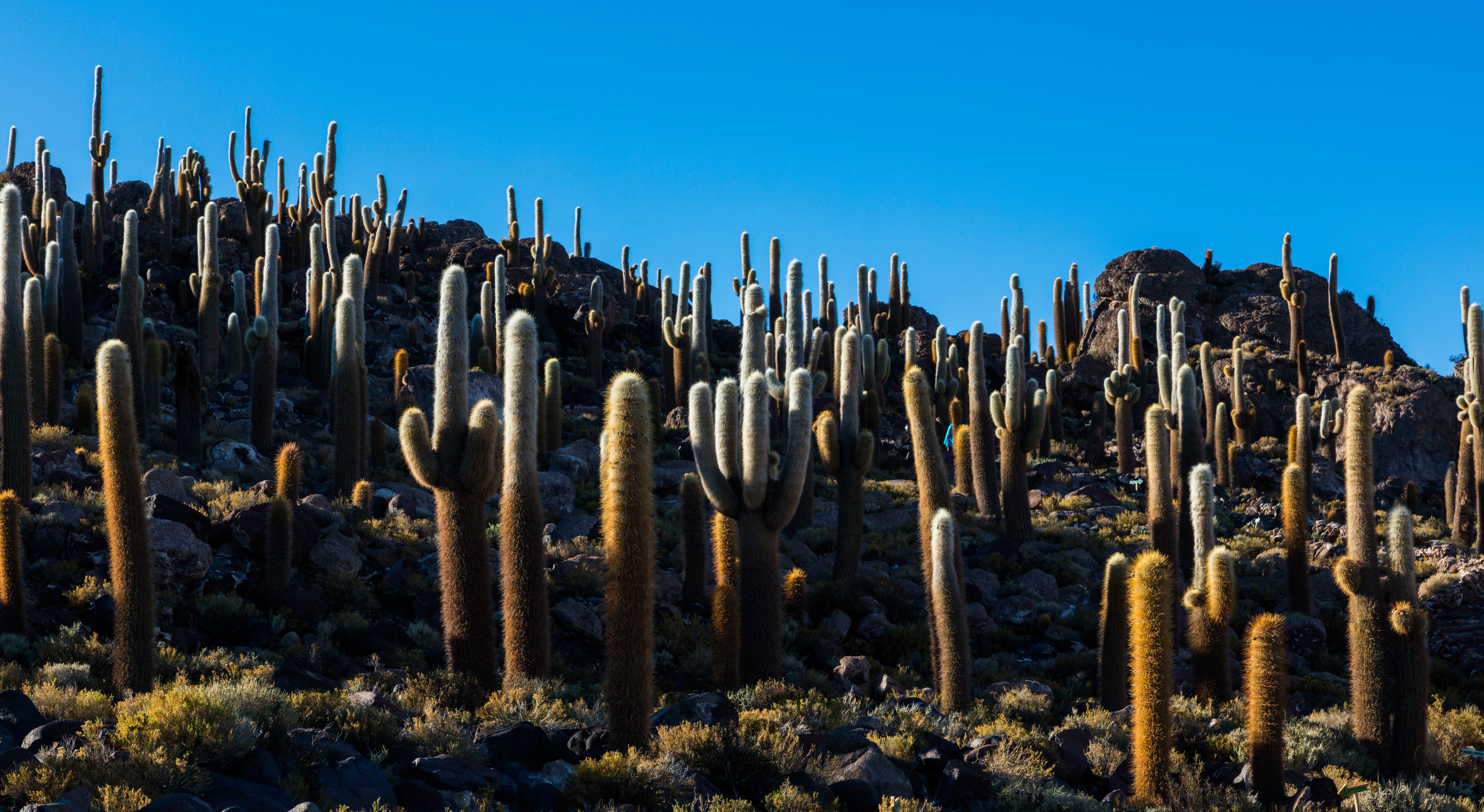 Isla Incahuasi, Uyuni salt flat, Bolivia